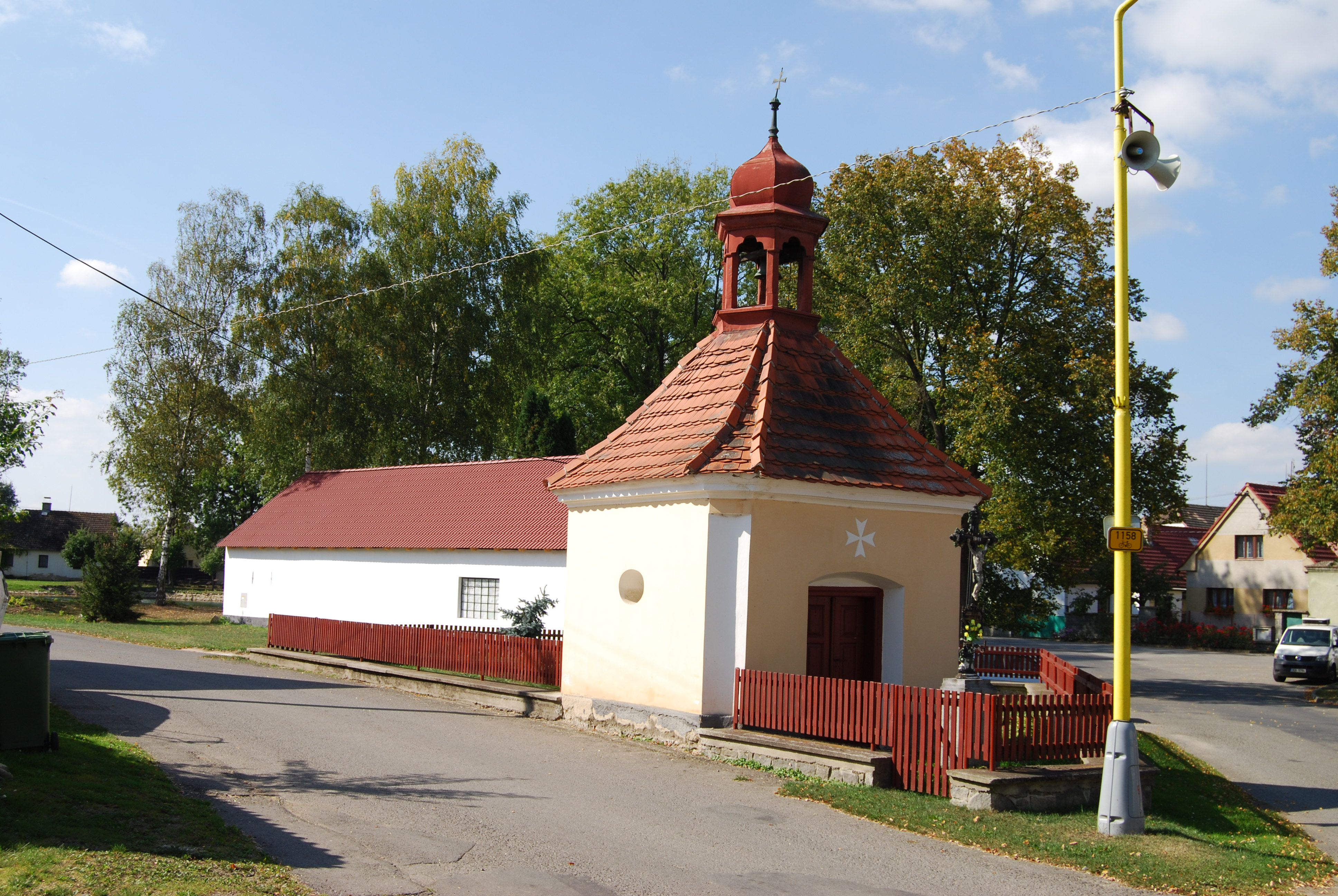 Smetanova Lhota village in Písek District, Czech Republic. Chapel